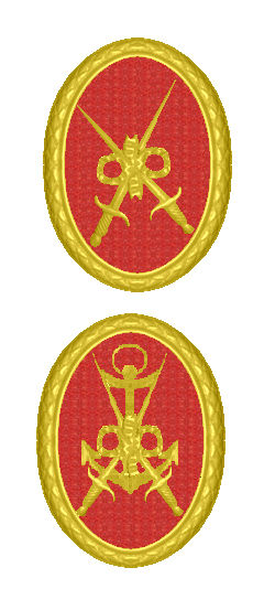 Veterans Medal of France 1771 LE MÉDAILLON DE VÉTÉRANCE